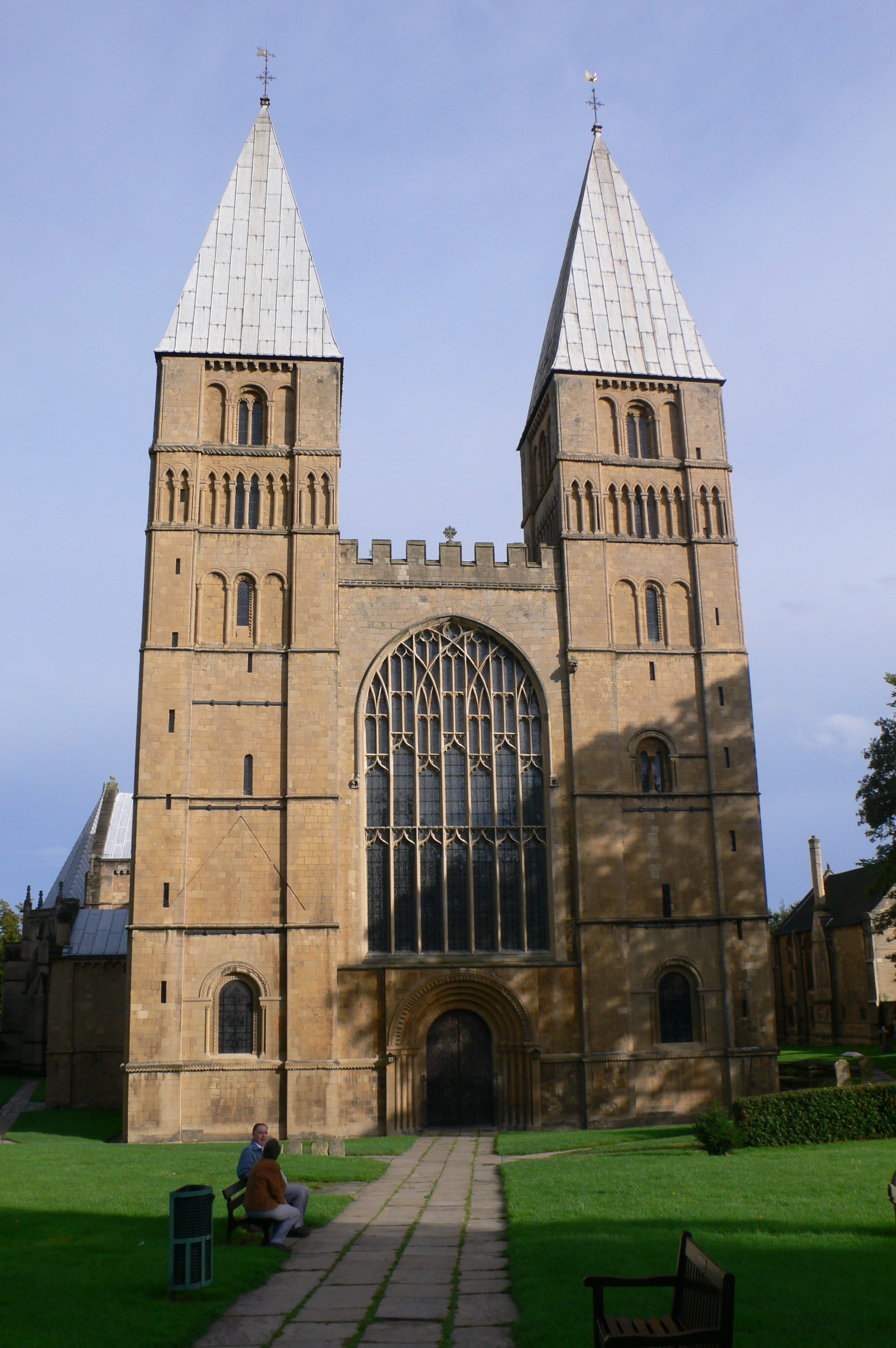 Southwell Minster, my image, October 2006